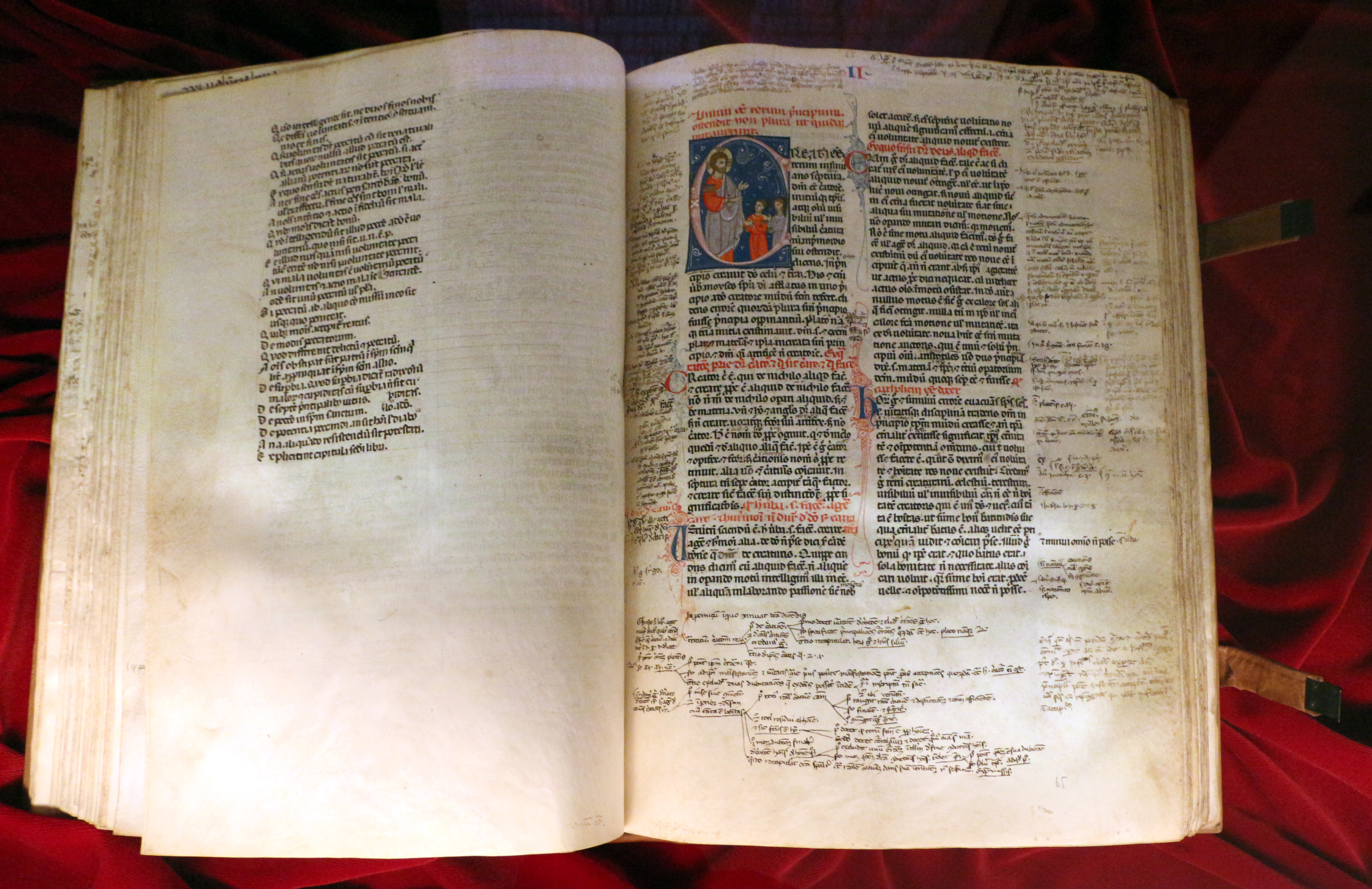 Biblioteca Medicea Laurenziana manuscripts